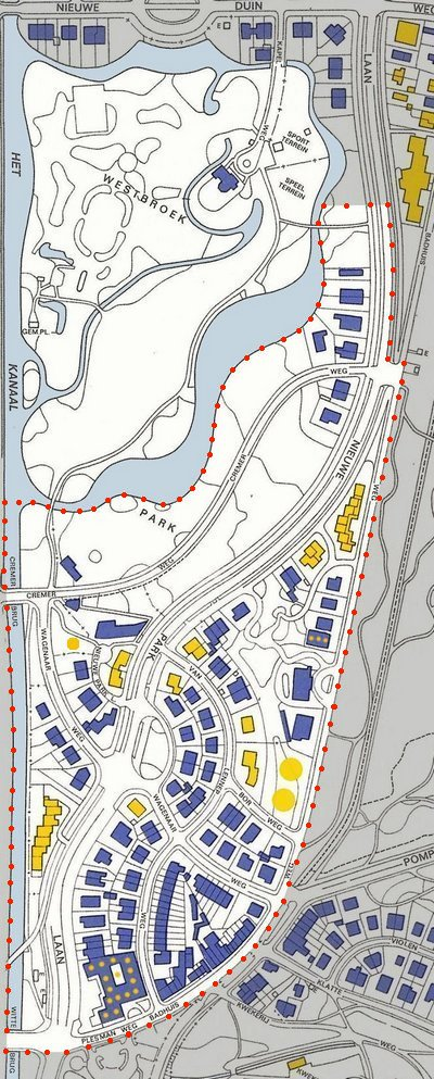 Map of Wittebrugpark in The Hague